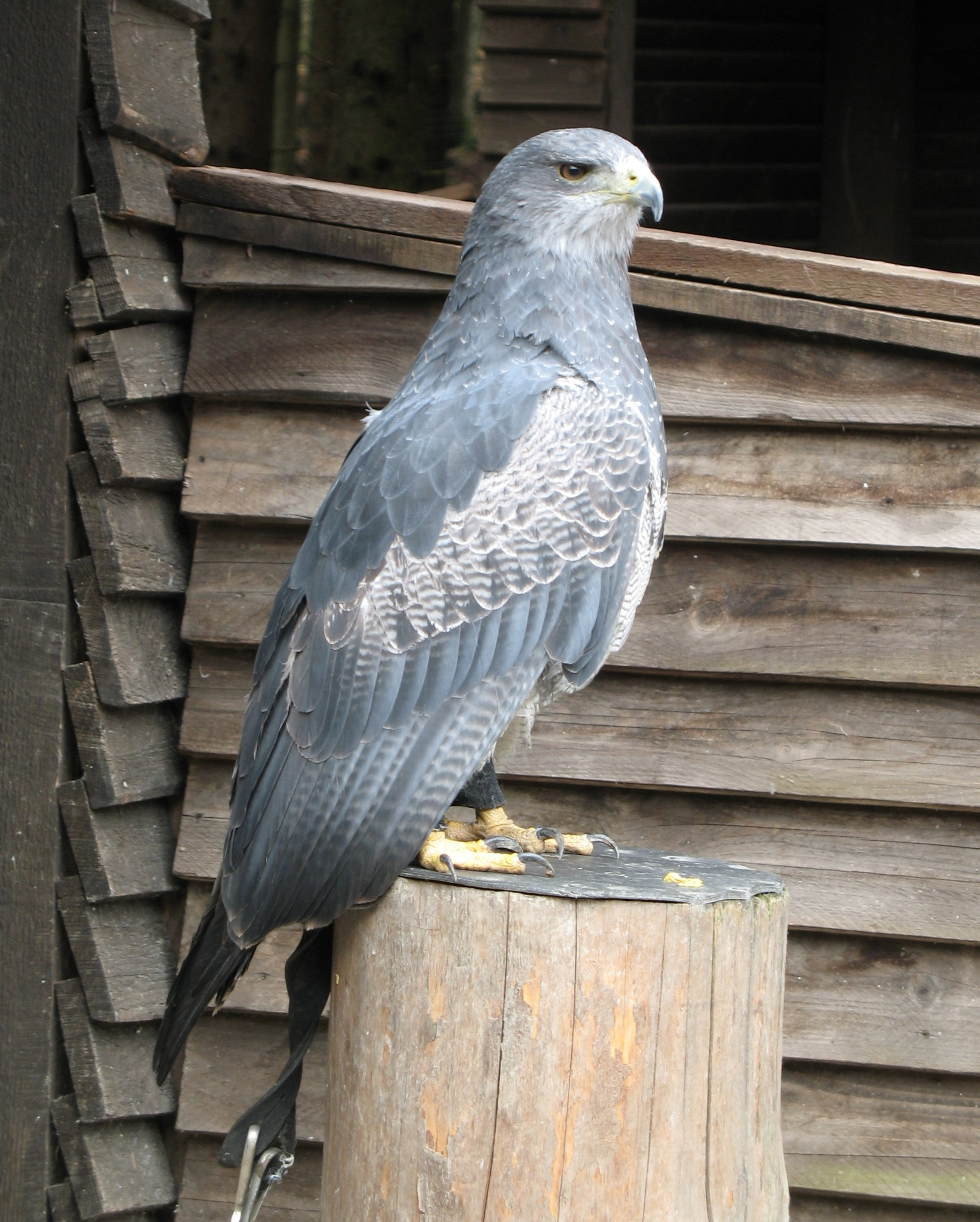 Black-chested Buzzard-eagle (Geranoaetus melanoleucus) in falconry centre Hellenthal, Germany